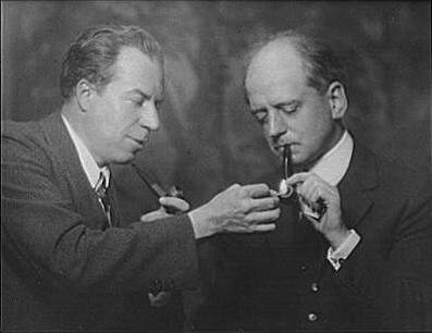 Title Portrait photograph of Christopher Morley and Mitchell Kennerley Contributor Names Genthe, Arnold, 1869-1942, photographer Created / Published between 1930 and 1942; from a negative taken 1930 June 9. Subject Headings - Kennerley, Mitchell,--1878-1950. - Morley, Christopher,--1890-1957. Format Headings Group portraits. Lantern slides. Portrait photographs. Notes - Title devised. - Purchase; Genthe Estate; 1942 or 1943. - ID: LC-G412-5716-005; 1930 June 9 Medium 1 slide : lantern ; 4 x 5 in. or smaller. Call Number/Physical Location LC-G4085- 0396 [P&P]